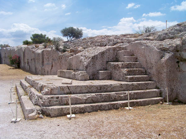 Famous orators like Perikles and Demosthenes spoke from this speaker's platform and addressed the Athenian citizen's assembly (4th and 5th centuries B.C.)